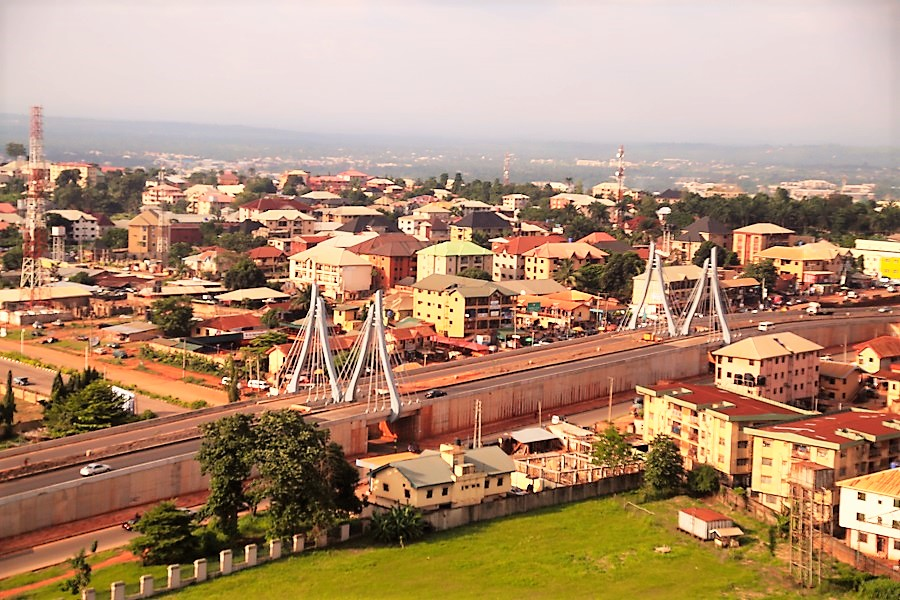 Aerial view of Awka (Arroma)